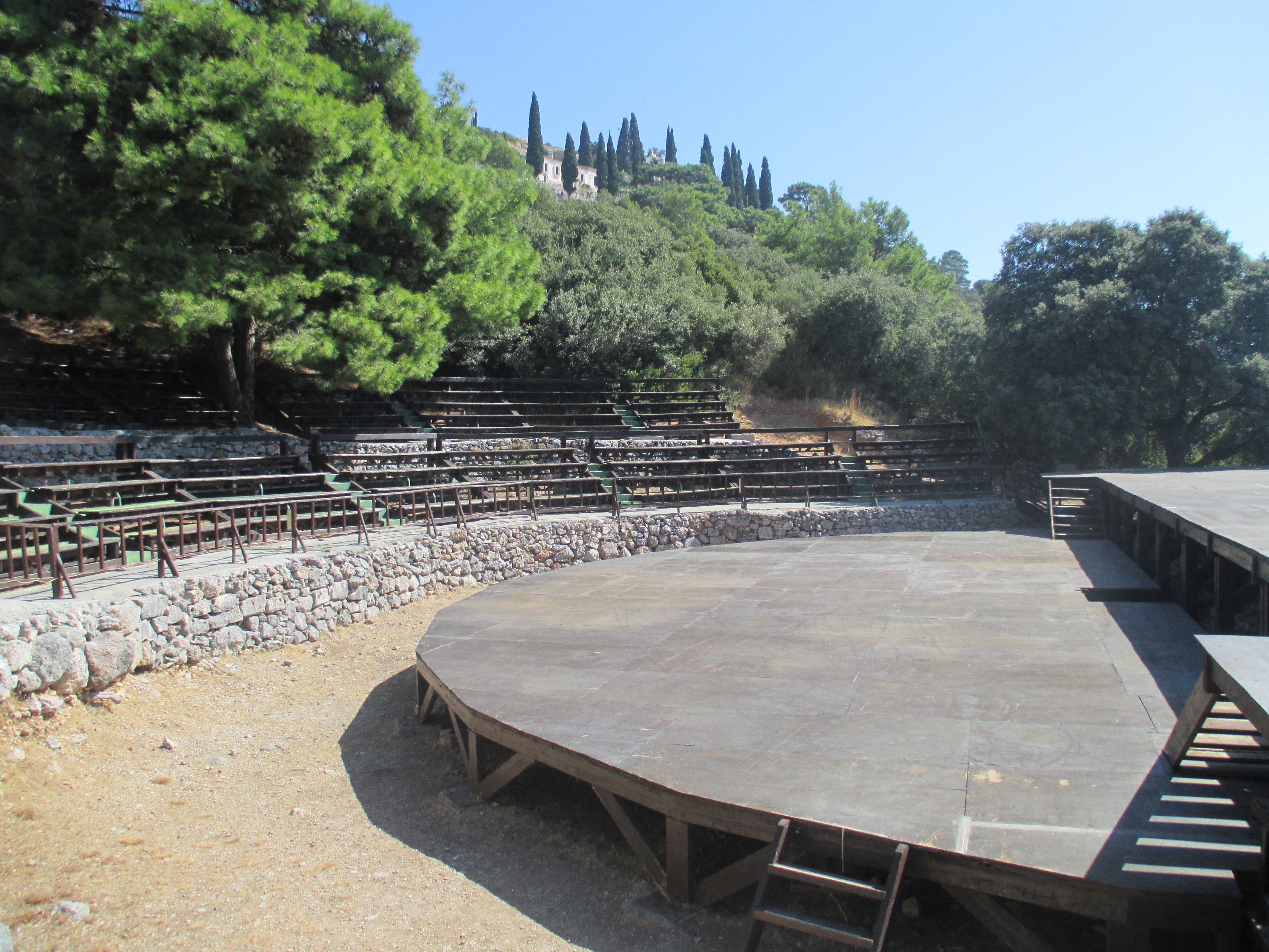 Ancient theatre of Pythagoreio (ancient polis of Samos). Mostly covered with modern wooden theatre structures.